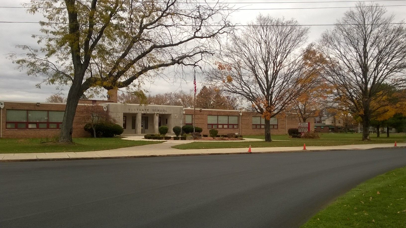 Westgate Elementary School, Columbus, OH